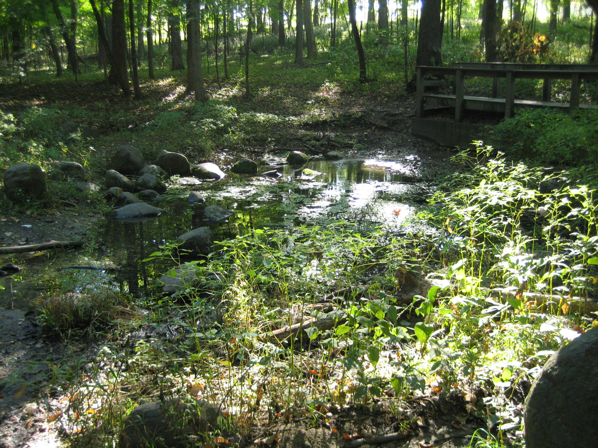 Silver Springs State Fish and Wildlife Area, Kendall County, Illinois, USA. Near the city of Yorkville. Silver Springs.